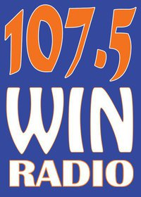 DWFU (87.3 Win Radio) logo.